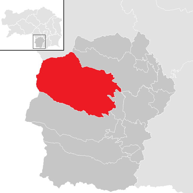 District Deutschlandsberg, Styria, Austria